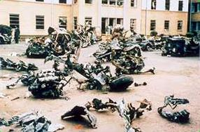 Photo of the aftermath of the Kenya embassy bombing. (source)